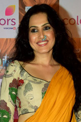 Kamya Punjabi graces the Indian Television Academy Awards 2017, Nov 6.